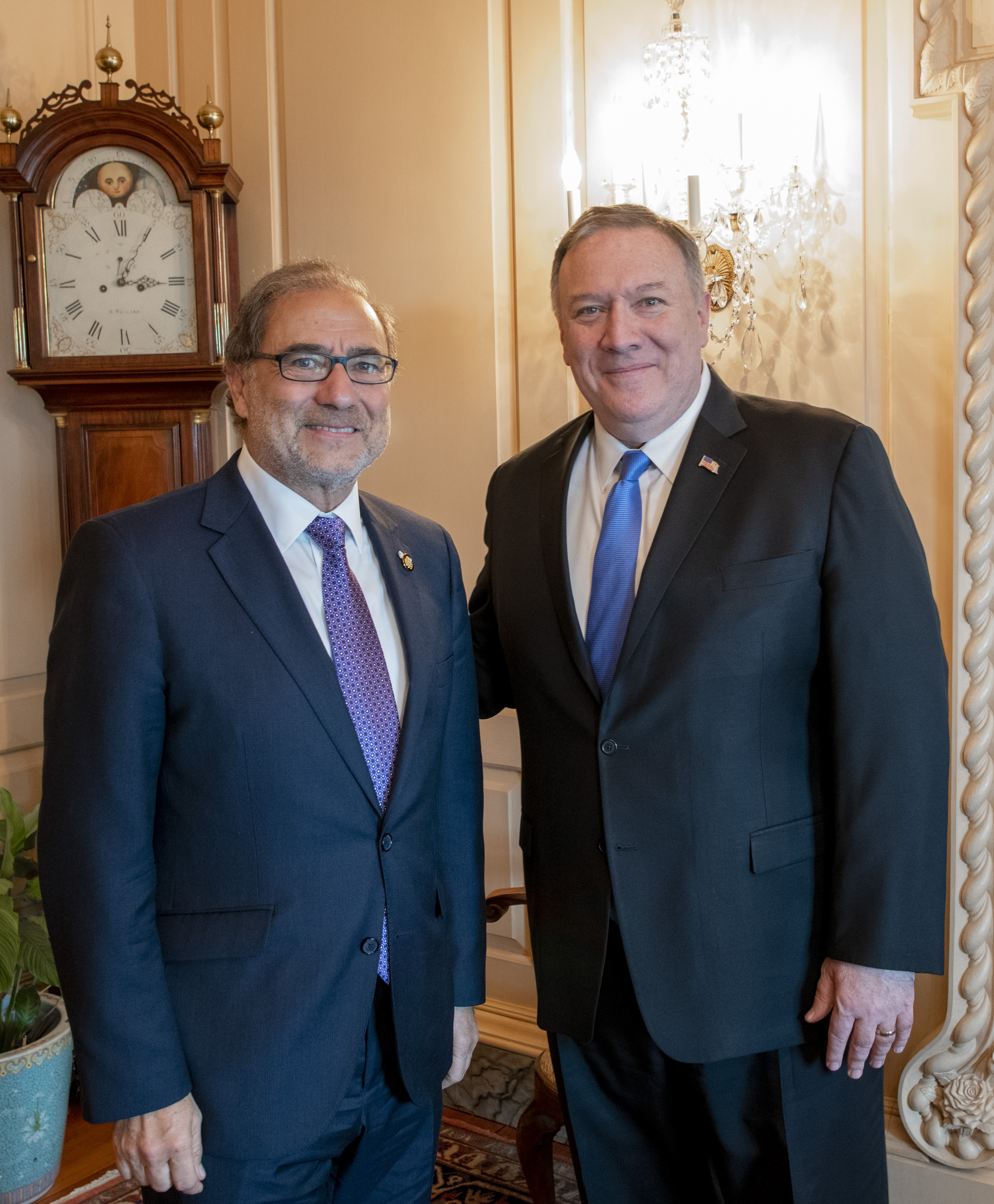 Secretary of State Michael R. Pompeo meets with Argentine Ambassador to the United States Jorge Argüello, at the Department of State, on February 24, 2020. [State Department Photo by Freddie Everett/ Public Domain]